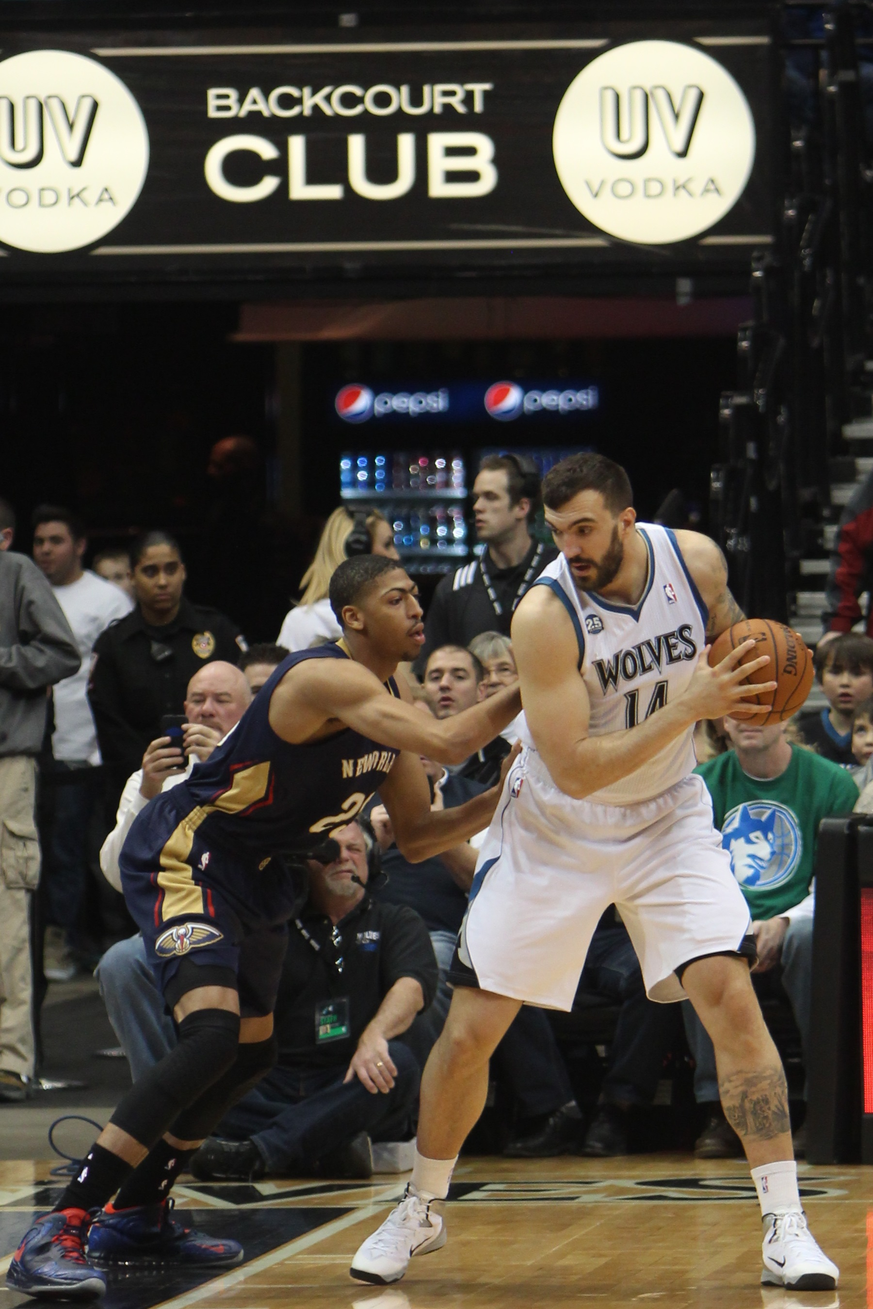 Nikola Peković guarded by Anthony Davis (basketball) at the Target Center